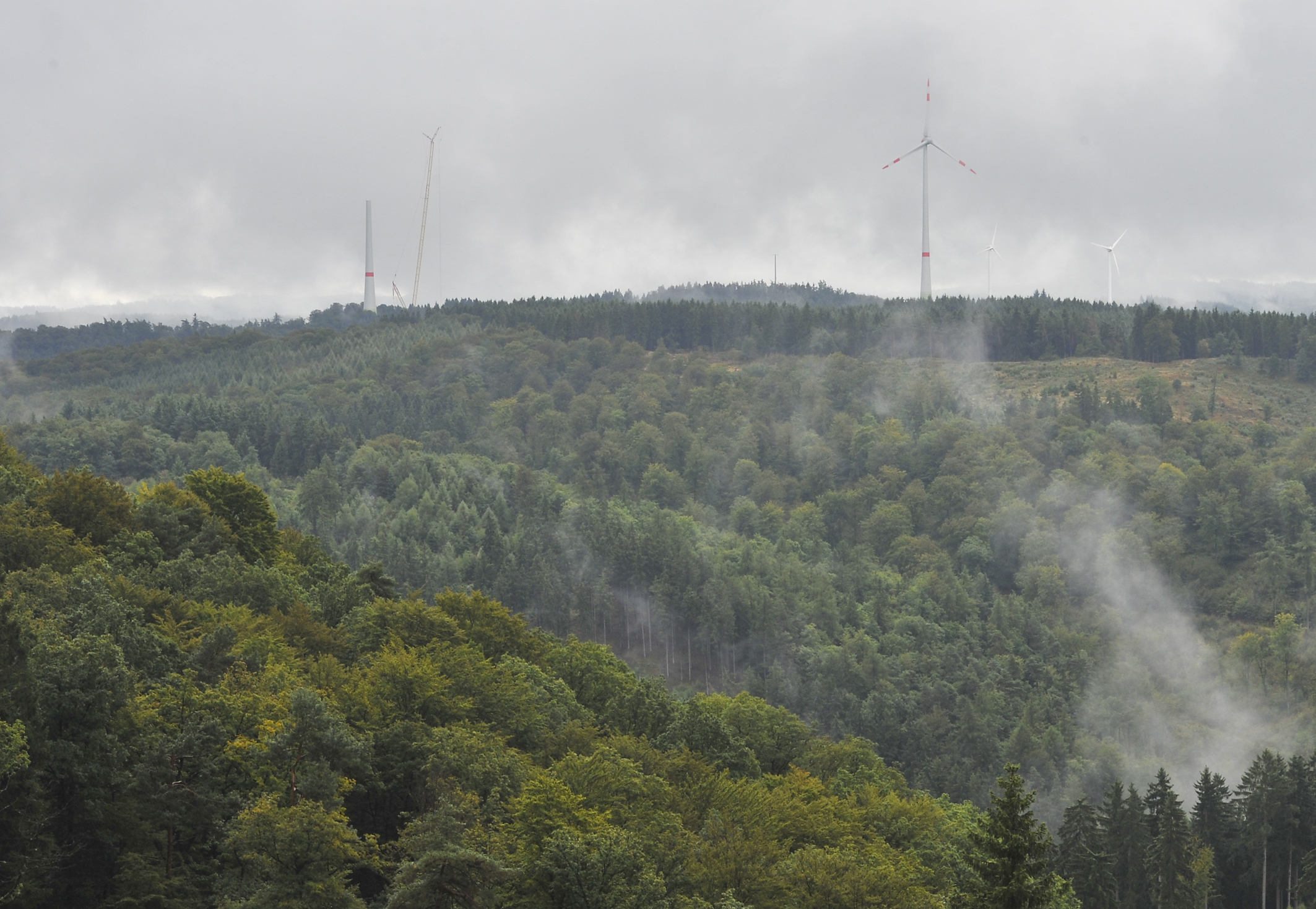 Wind turbines close to Steinbruch Oberdieten, Hesse, Germany.